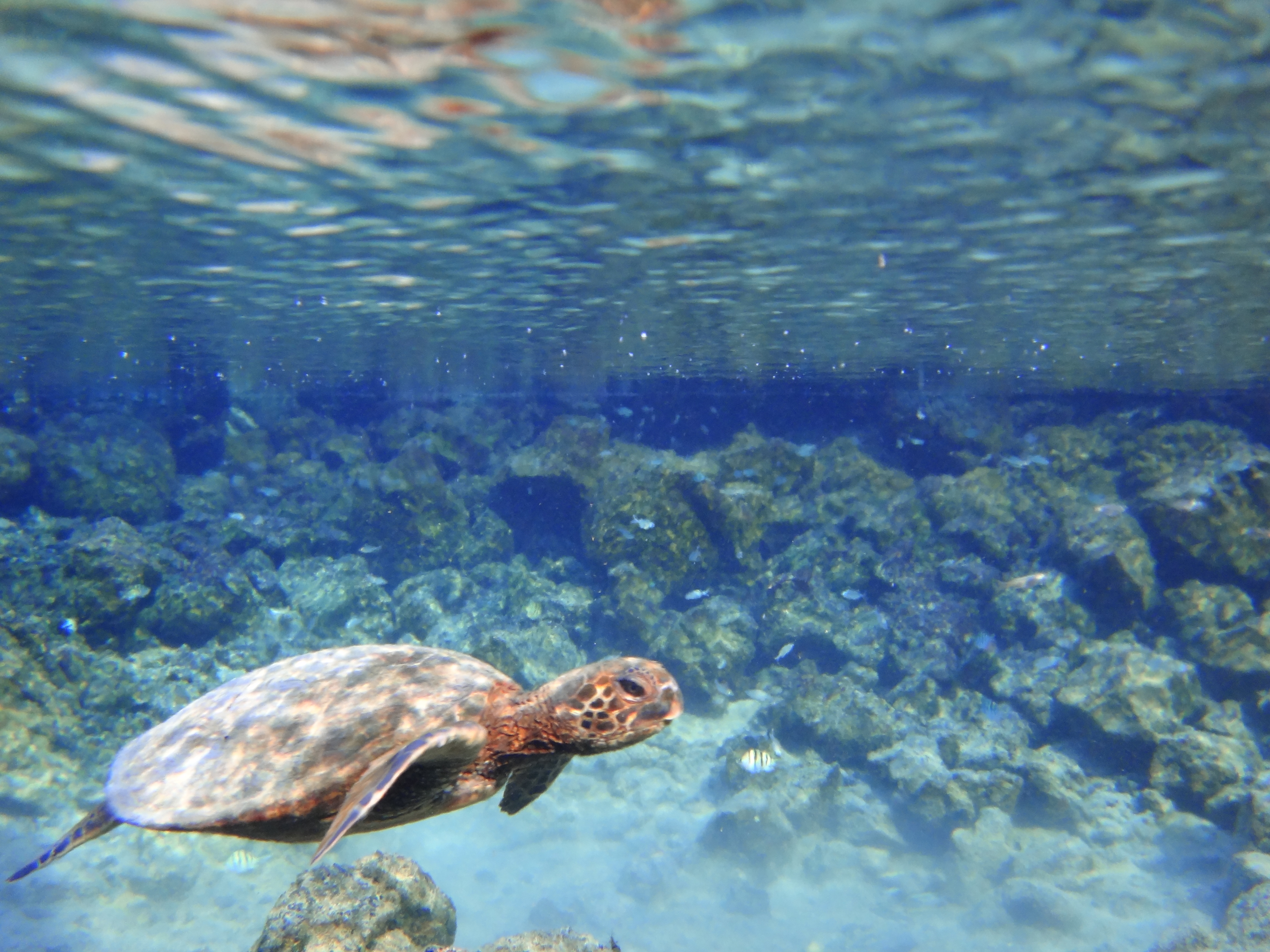 Green sea turtle swimming in the pools of Kiholo bay, Kona, Hawaii